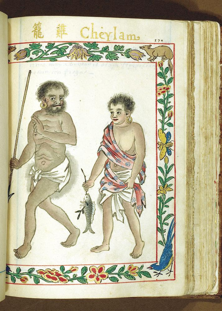 "雞籠 Cheylam" - Couple from Keelung, Taiwan - Boxer Codex (1590) Observed by the Colonial Spanish Authorities in Manila, Philippines around 1590 AD